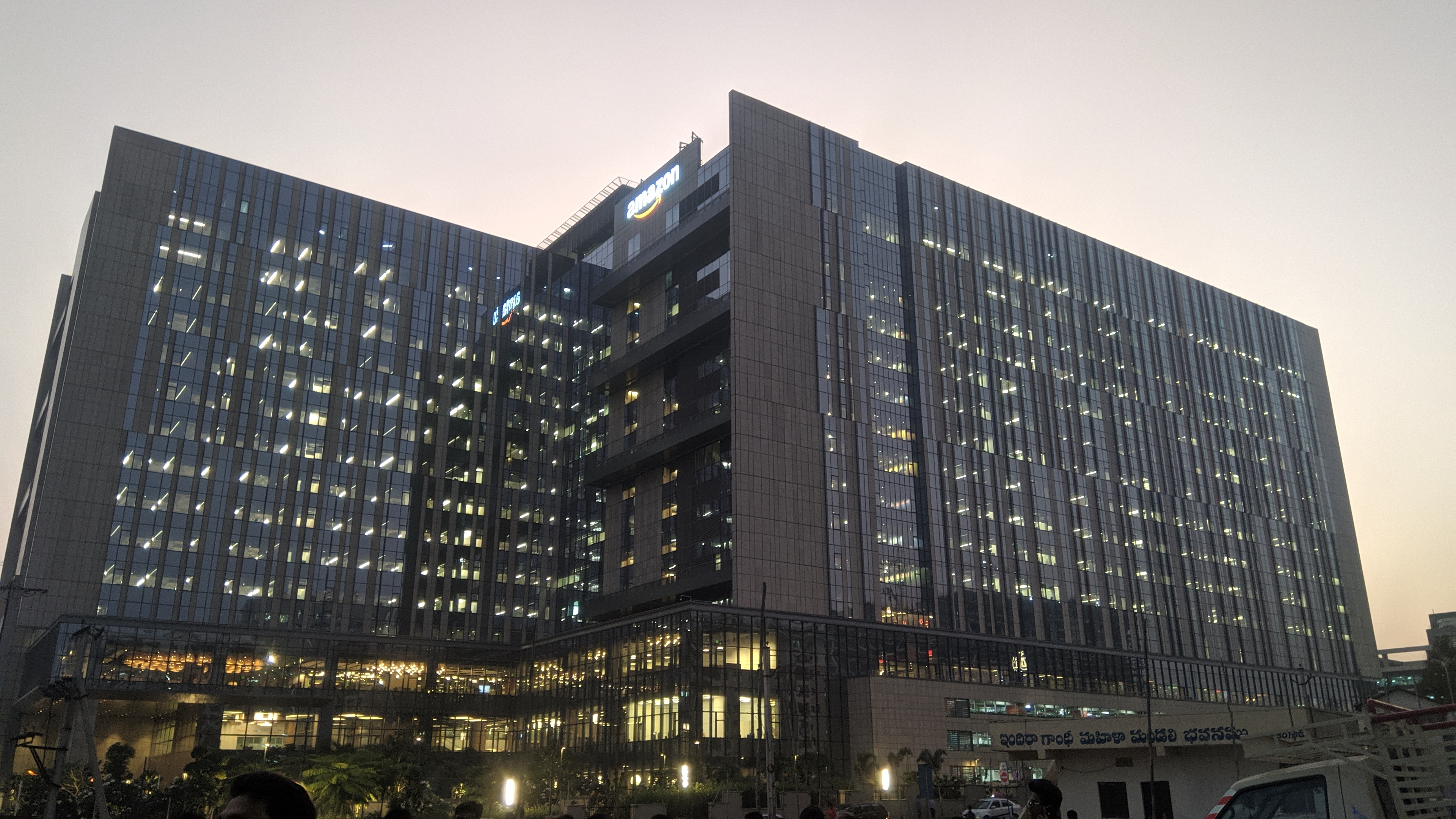 this is the main campus in Hyderabad inaugurated in 2019